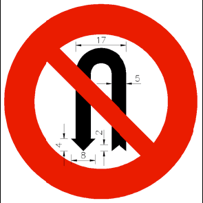 Taiwanese Prohibitory Sign P22: No U-Turn